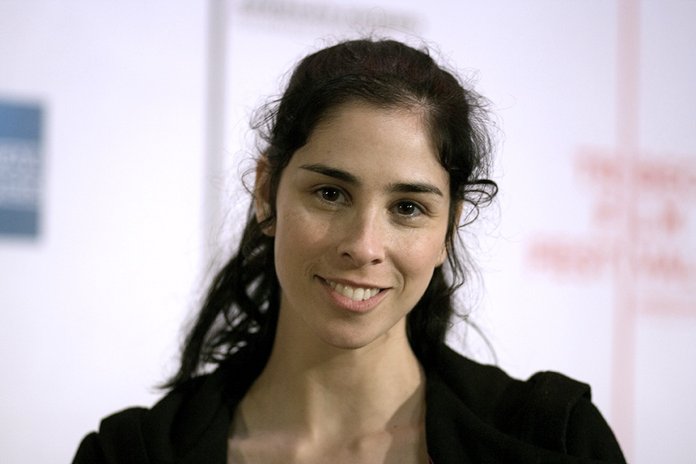 Sarah Silverman at the Tribeca Film Festival.